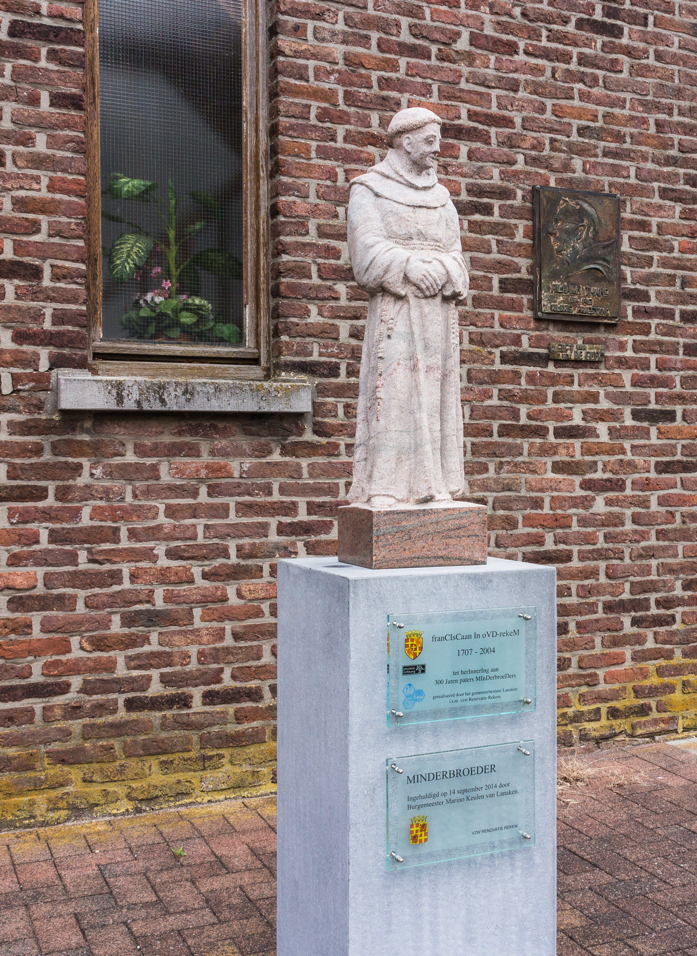 Statue of minderbroeder at Paterskerk in Rekem (part) of Lanaken province of Limburg in Belgium.